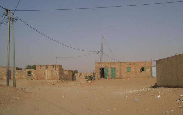 Road intersection in Akjoujt, Mauritania